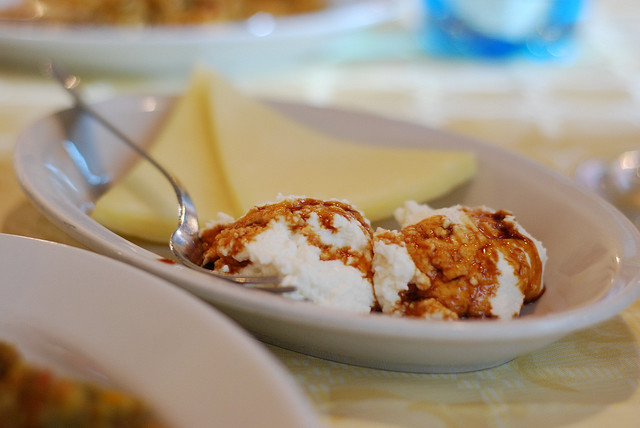 Fresh ricotta with vino cotto and carciocavallo cheese